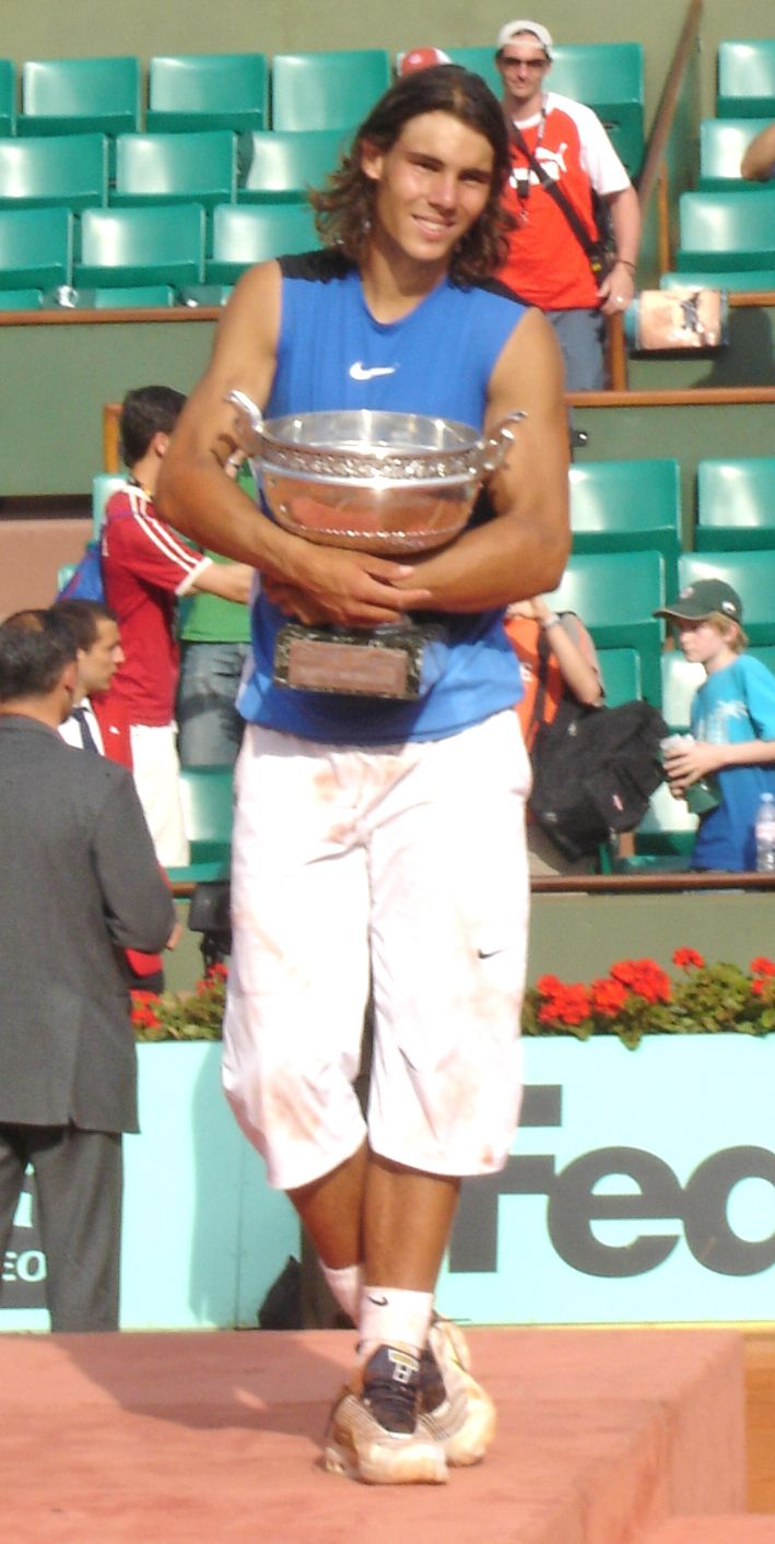 Cropped version of Image:Nadal photographié.jpg